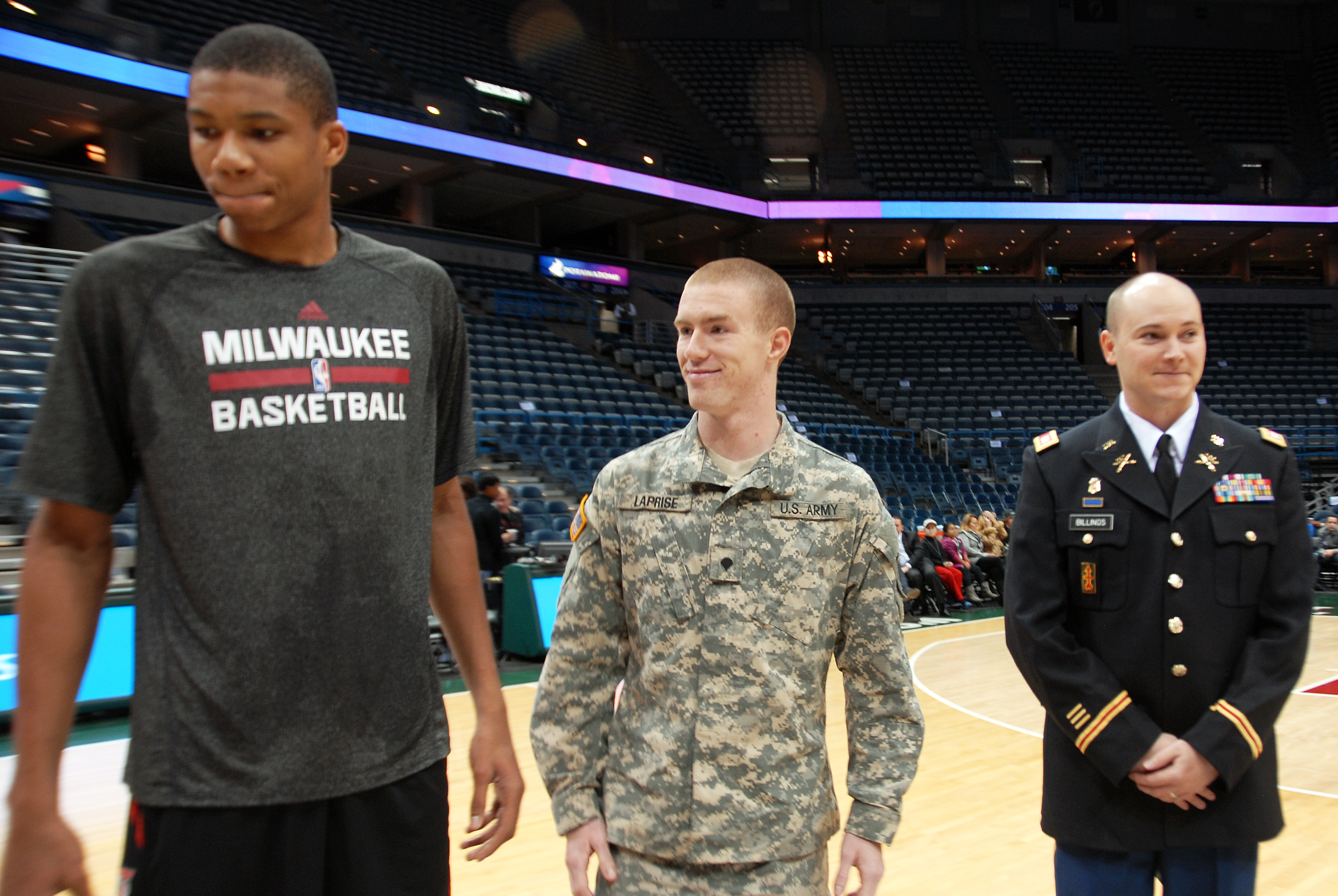 Spc. Travis Laprise (middle), of the Wisconsin Army National Guard's Headquarters and Headquarters Battery, 1st Battalion, 120th Field Artillery, and his commander, Capt. Rustin Billings, stand with Giannis Antetokounmpo of the Milwaukee Bucks before a game between the Bucks and the Dallas Mavericks at the BMO Harris Bradley Center in Milwaukee Nov. 9. Laprise was awarded the Wisconsin National Guard's 2013 Thomas E. Wortham Achievement Award at the game for his commitment to community service. (Wisconsin National Guard photo by 1st Lt. Joe Trovato)